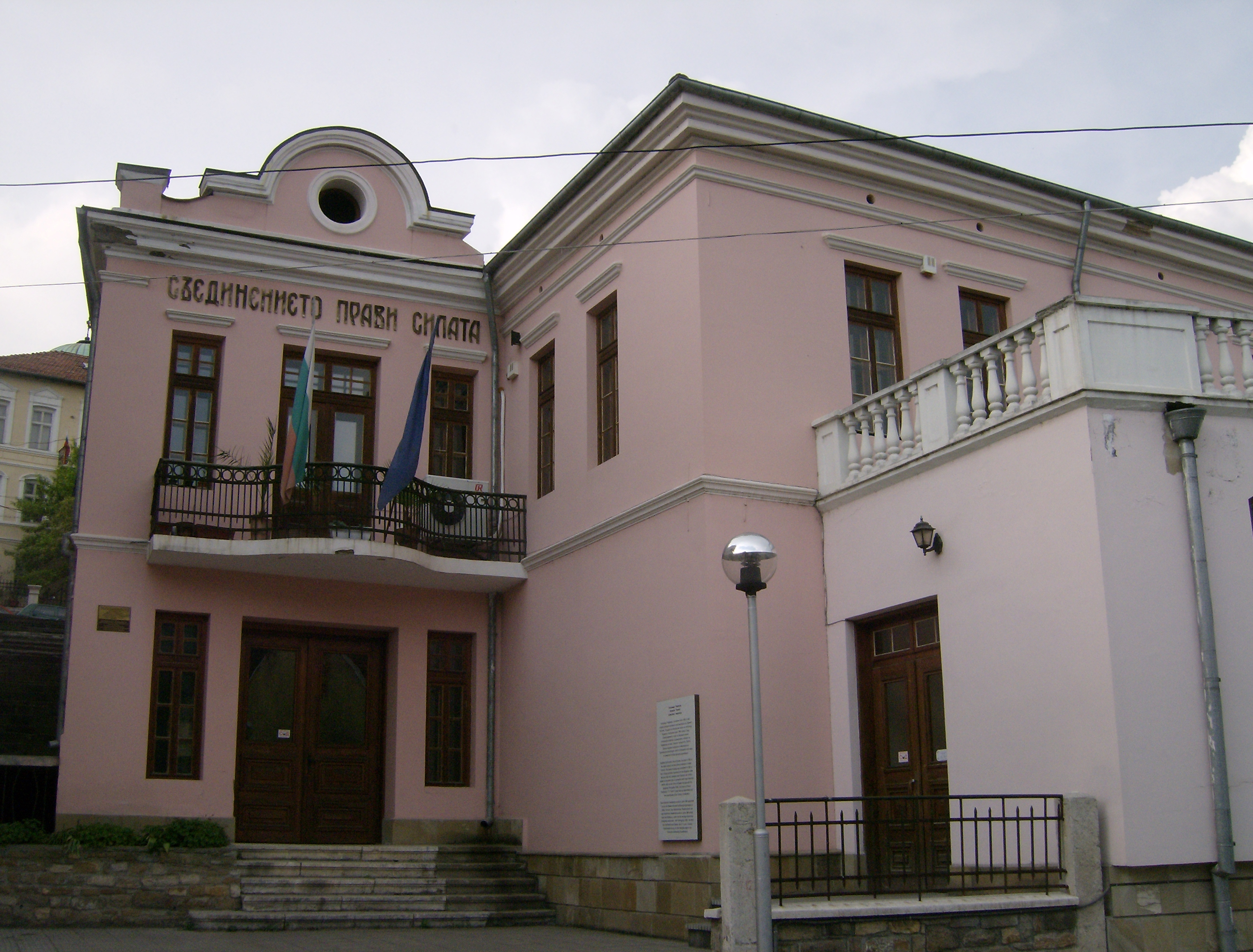 Chitalishte Nadezda, Veliko Turnovo